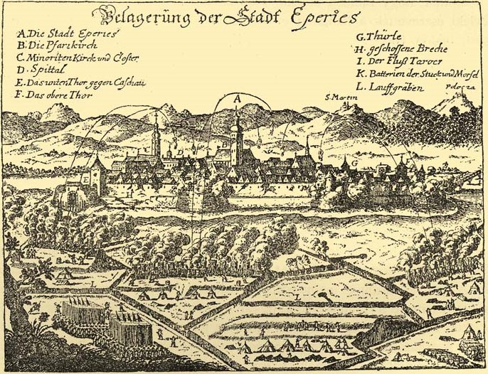 Prešov by Boethius